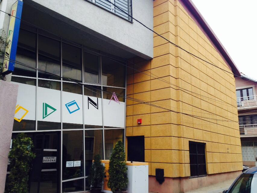 Dodona Theatre in Prishtina